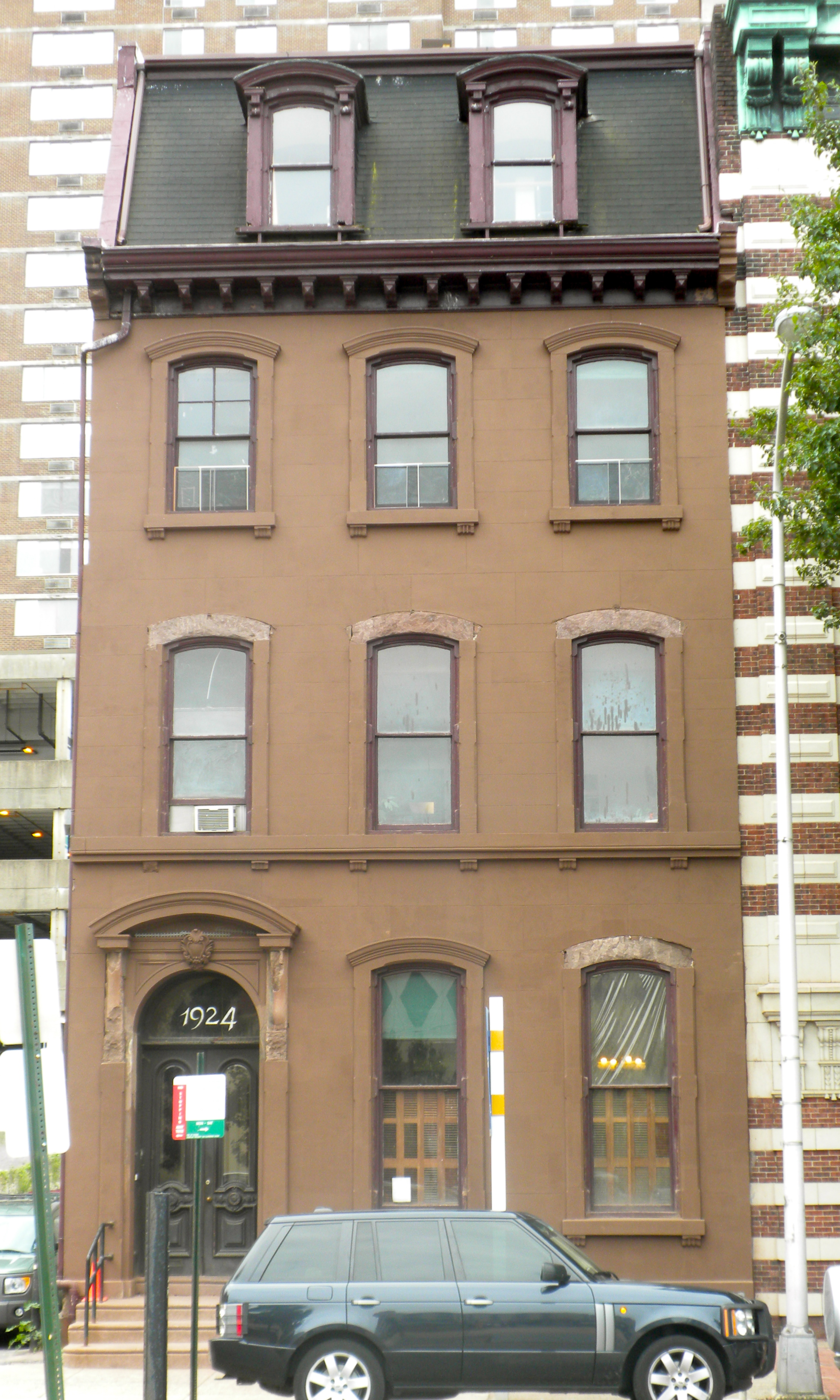 Francis McIlvain House on the NRHP since November 20, 1979. At 1924 Arch Street in the Logan Square neighborhood of Center City Philadelphia.